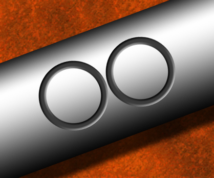 The "double bullet" stamp used on iron bars produced at the Valloon ironworks at Österbybruk, Sweden.